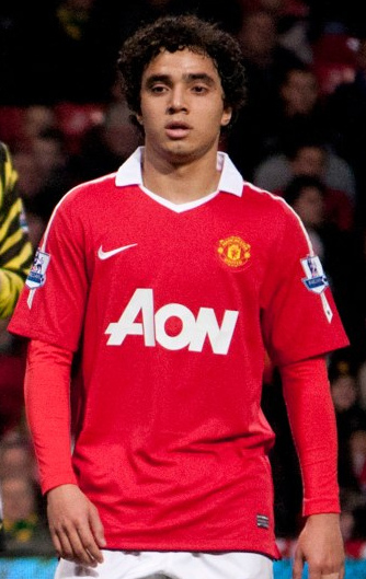 Rafael da Silva